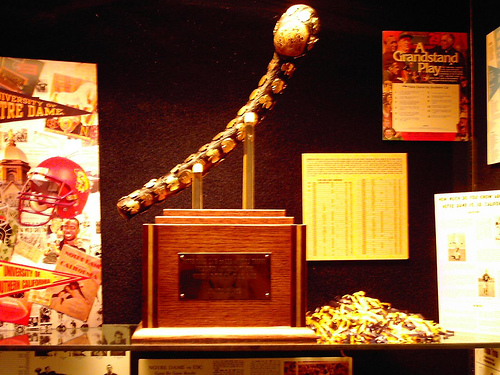 The Jeweled Shillelagh is the trophy awarded to the winner of the American college football rivalry game played annually by the Notre Dame Fighting Irish football team of the University of Notre Dame and USC Trojans football team of the University of Southern California.